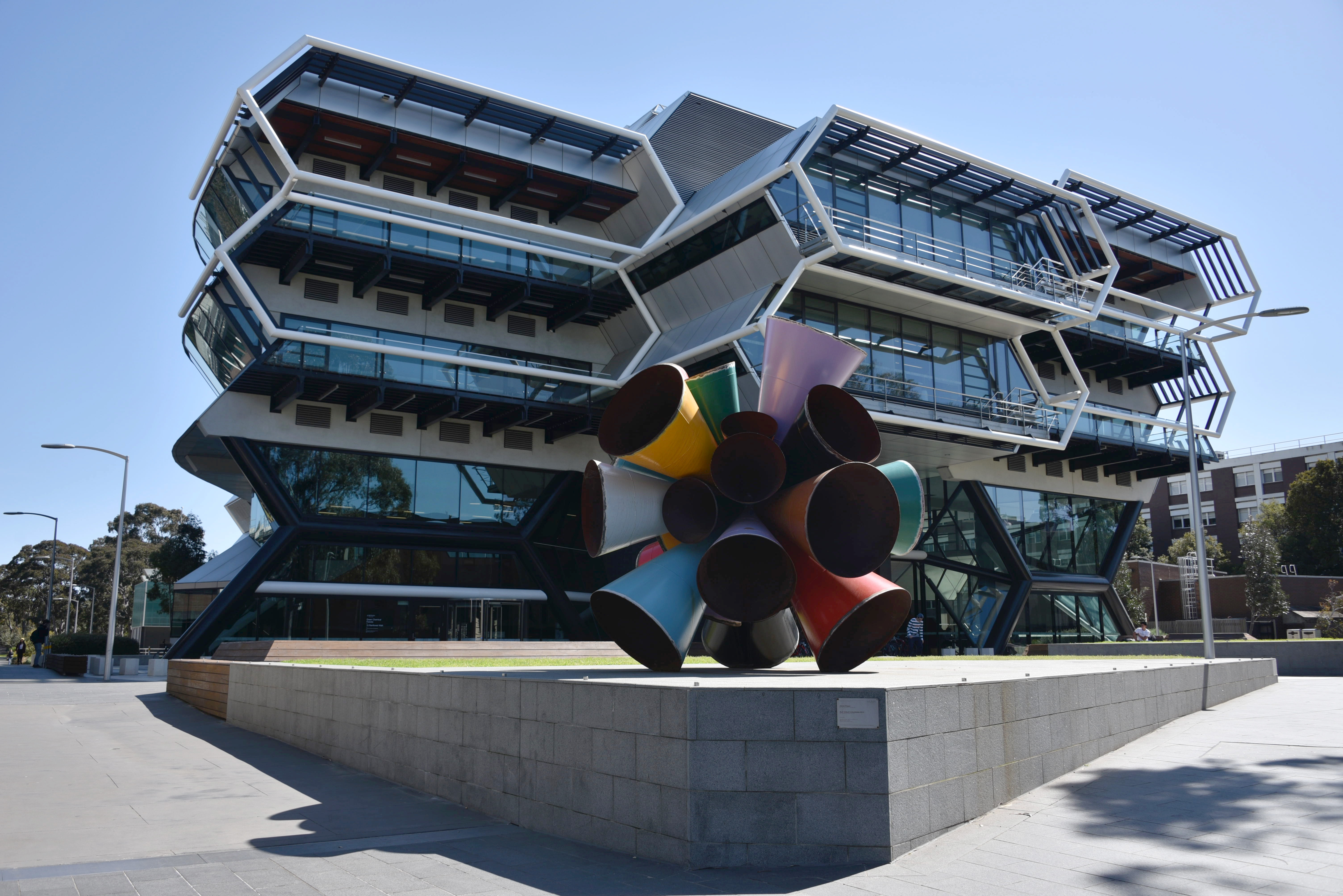 Chemistry teaching and Research Building at Monash University. Architect: Lyons 2015 Scupture - Built Unbuilt Unbuildable : James Angus. Commissioned by the Monash University Museum of Art (MUMA), Built Unbuilt Unbuildable was conceived by celebrated Australian artist James Angus. The structure of the work riffs off the cage-life fused-ring structure of the Buckminsterfullerene C60 carbon molecule, known colloquially as a ‘bucky ball’. Resembling a soccer ball, ‘bucky balls’ are considered one of the most stable of molecules because of their beautiful and intricate symmetry. In Angus’ artwork, the 'bucky ball' form has been appropriated and corrupted—instead of a shell like shape, the spherical structure is constructed from a series of steel pipe cones protruding from a centre. Inspired by its proximity to the Faculty of Science on Clayton campus, Built Unbuilt Unbuildable borrows from the architecture of the new Green Chemical Futures facility, and is intended to be a celebration of engineering, a discipline devoted to the invention of structures, systems, materials and processes.